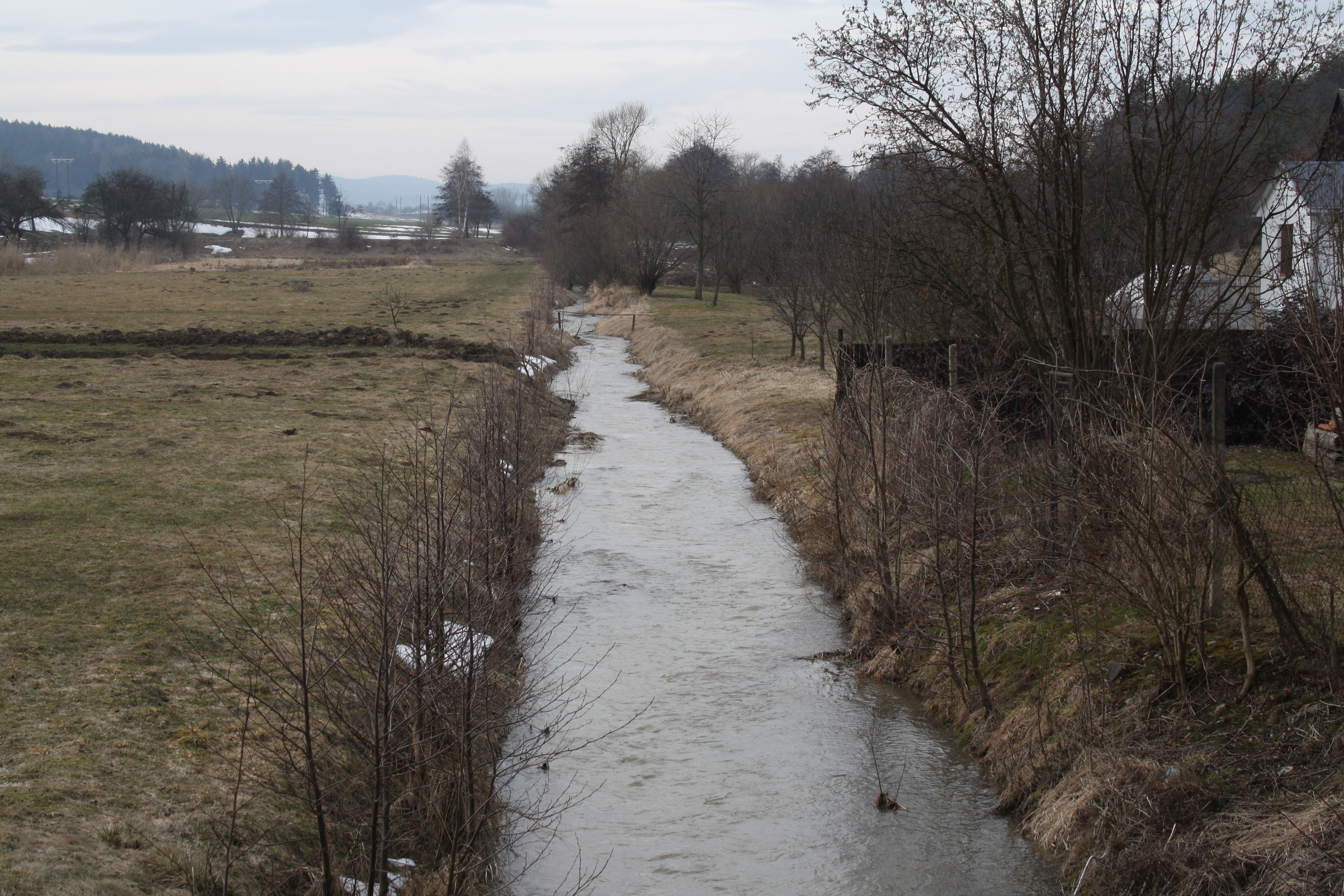 Šebkovický stream in Šebkovice.